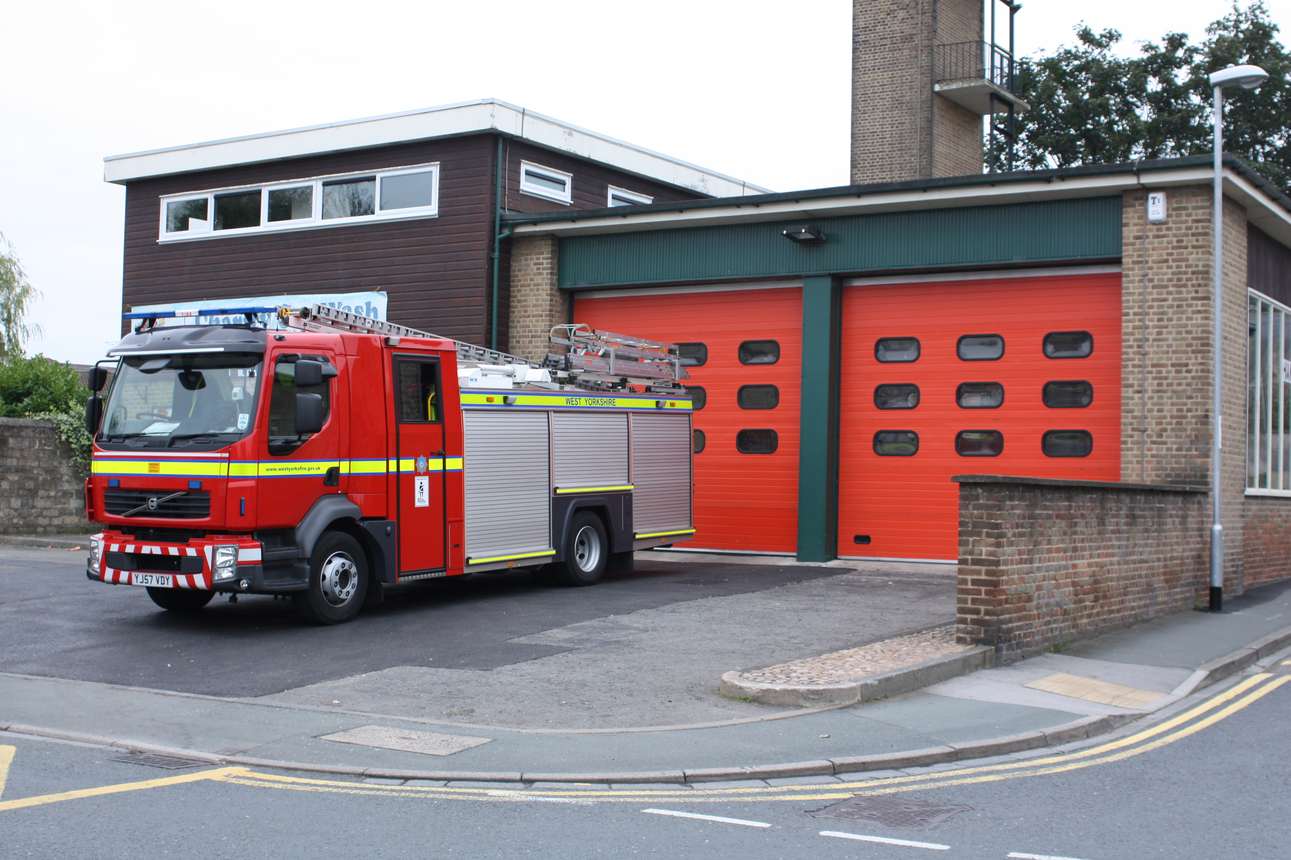 Wetherby fire station from Walton Road showing a Volvo fire engine outside. Taken on Friday the 18th of September 2009.